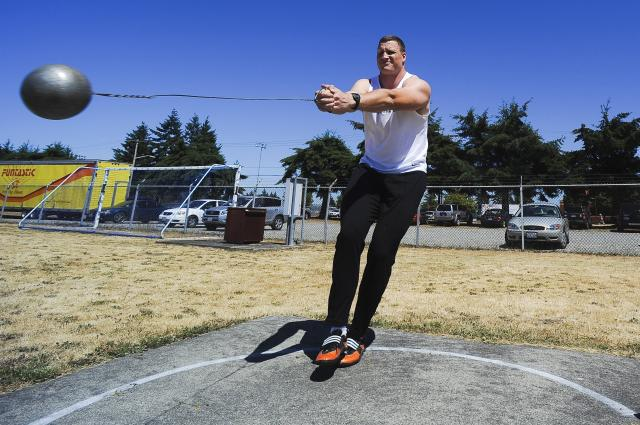 Hammer thrower Mike Mai practices at Fort Lewis, July 1. Mai finished third at the U.S. National Championships and will soon compete at the World Track and Field Championships in Berlin, Germany.